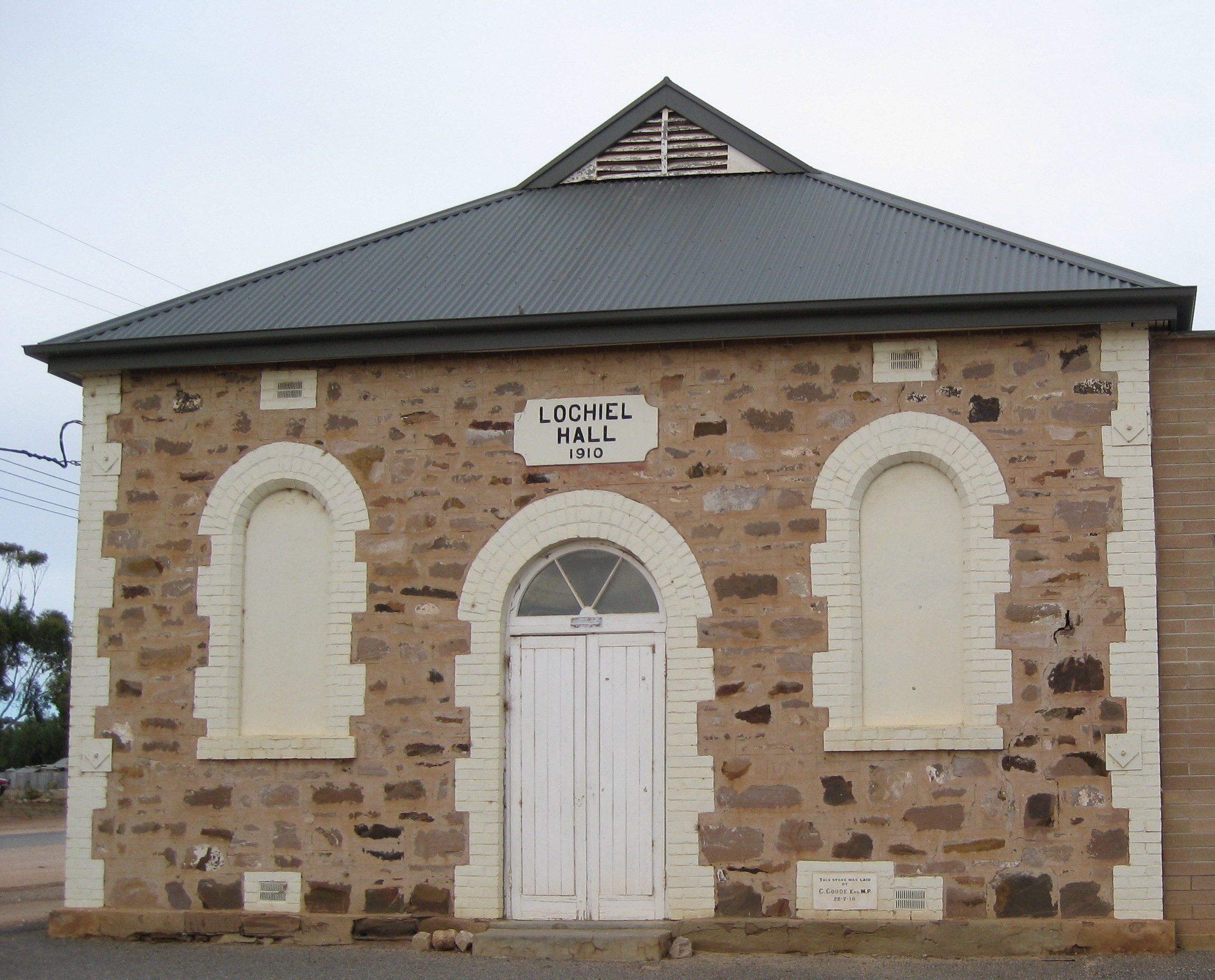 Hall at Lochiel, South Australia.